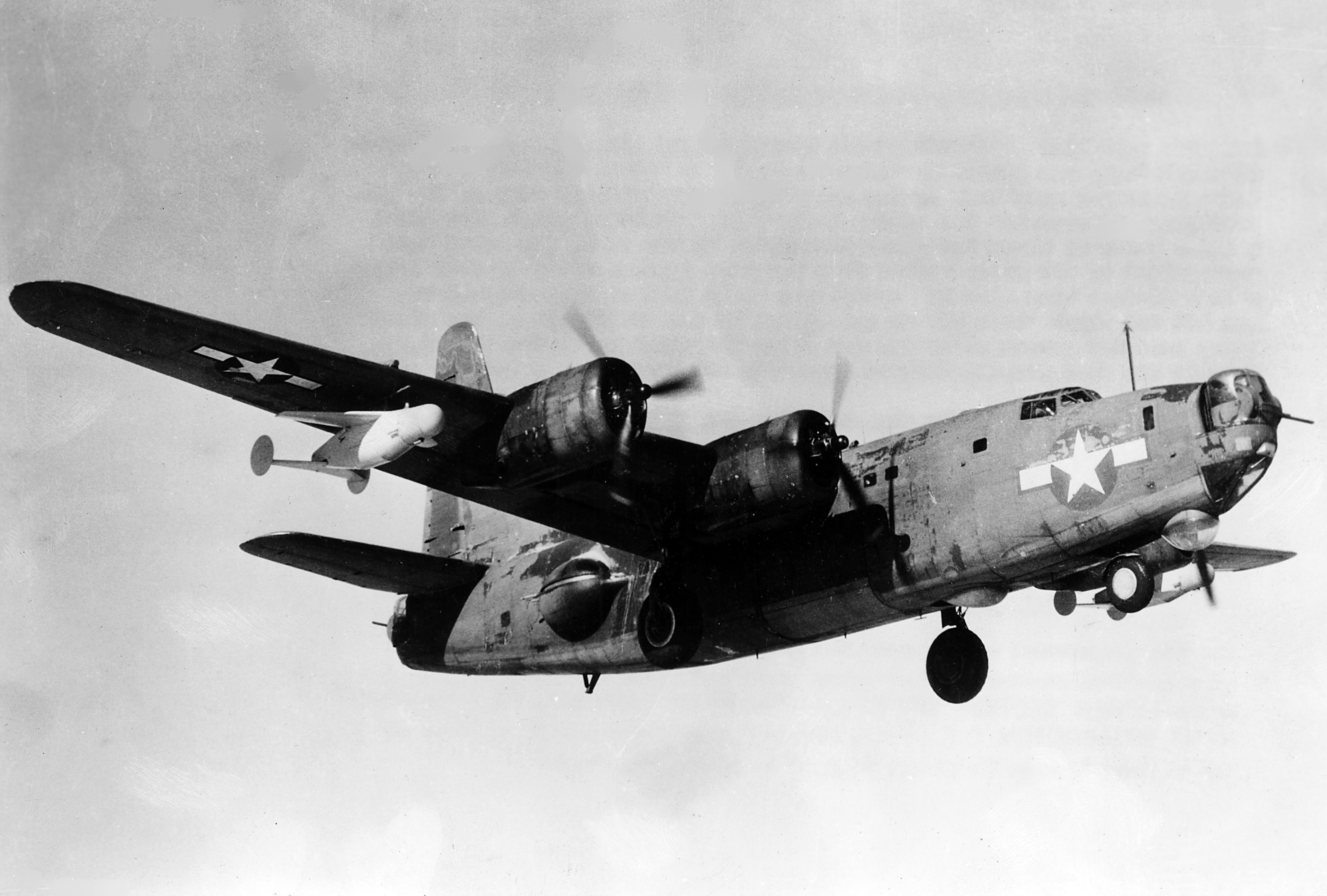 A U.S. Navy Consolidated PB4Y-2 Privateer taking off with two ASM-N-2 Bat glide bombs attached.